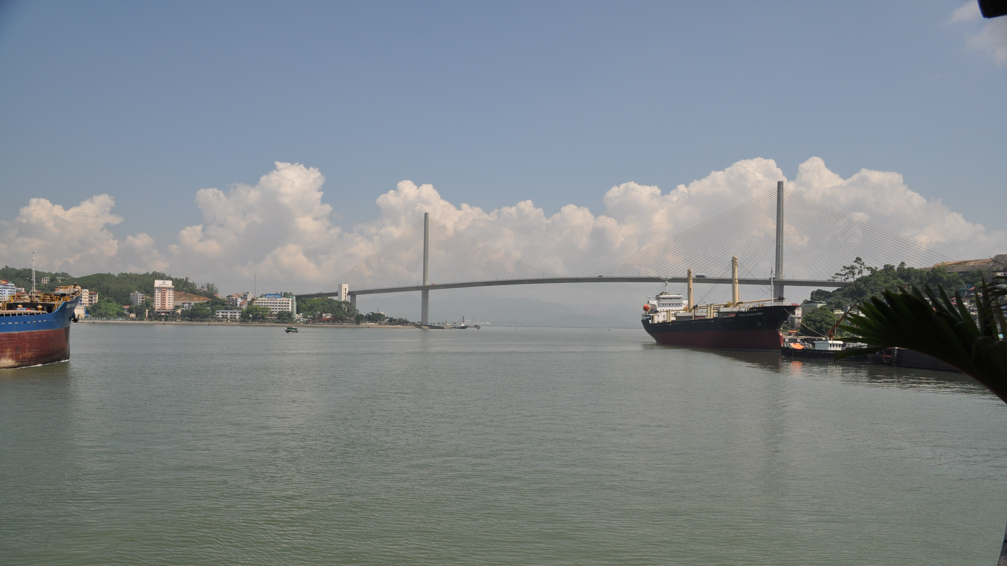 The Bai Chay Bridge connects Hon Gai with Bai Chay over the Cua Luc Straits, separating Cua Luc Bay with Halong Bay, the territory of the province Quang Ninh, Vietnam